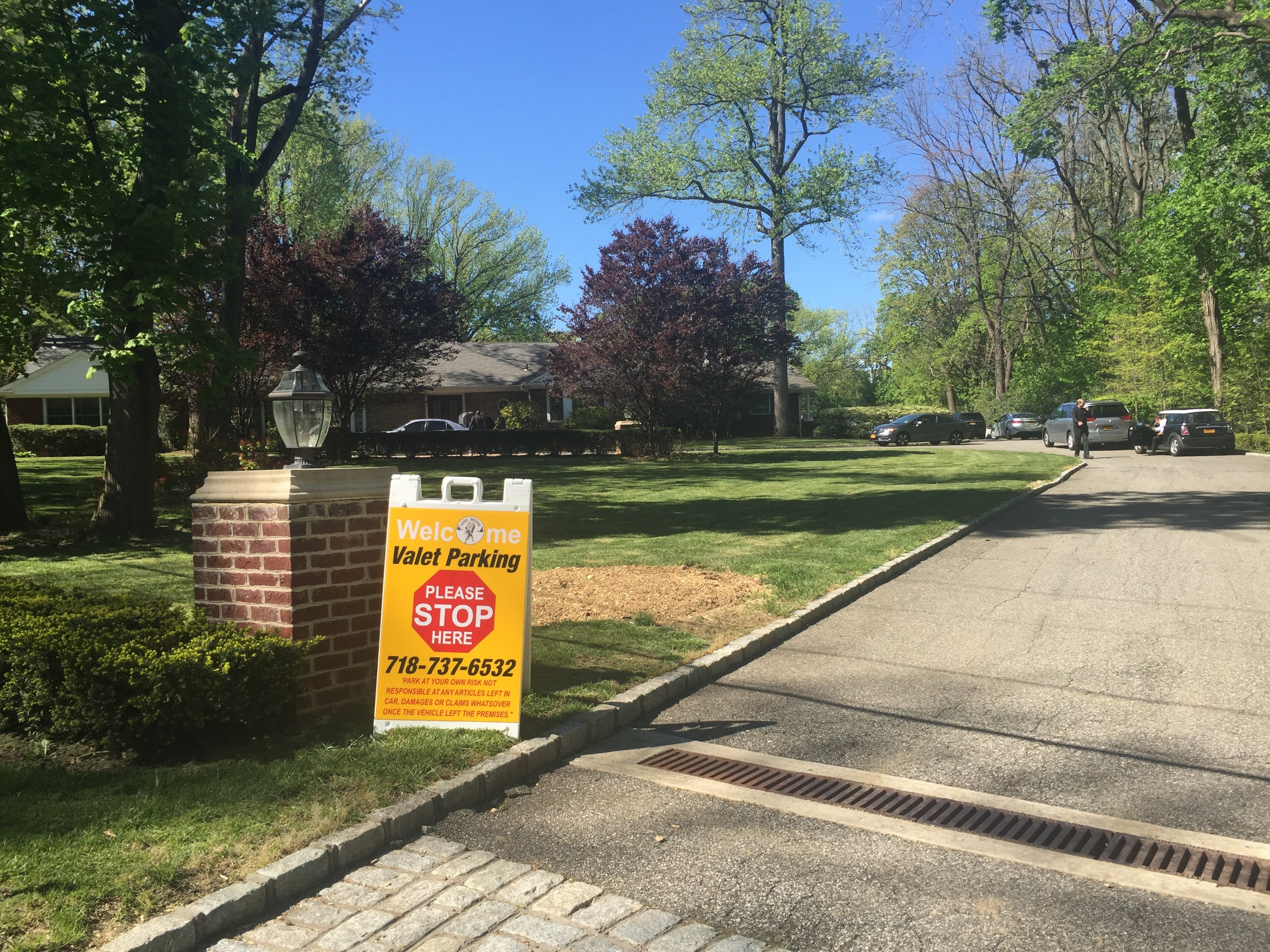 Lions Parking